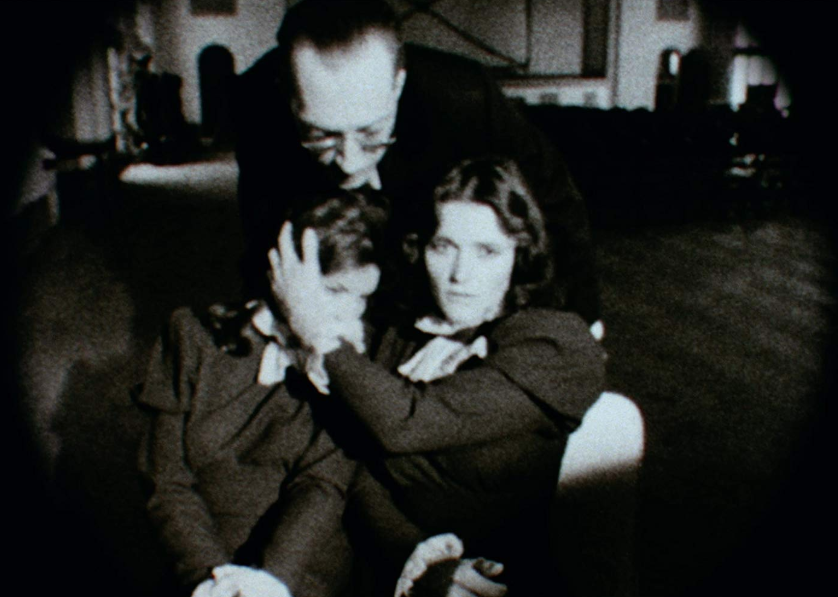 Margot Kidder in a still from the trailer for Sisters (1973)